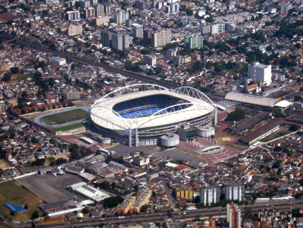 Joao Havelange Olympic Stadium - Rio de Janeiro, Brazil